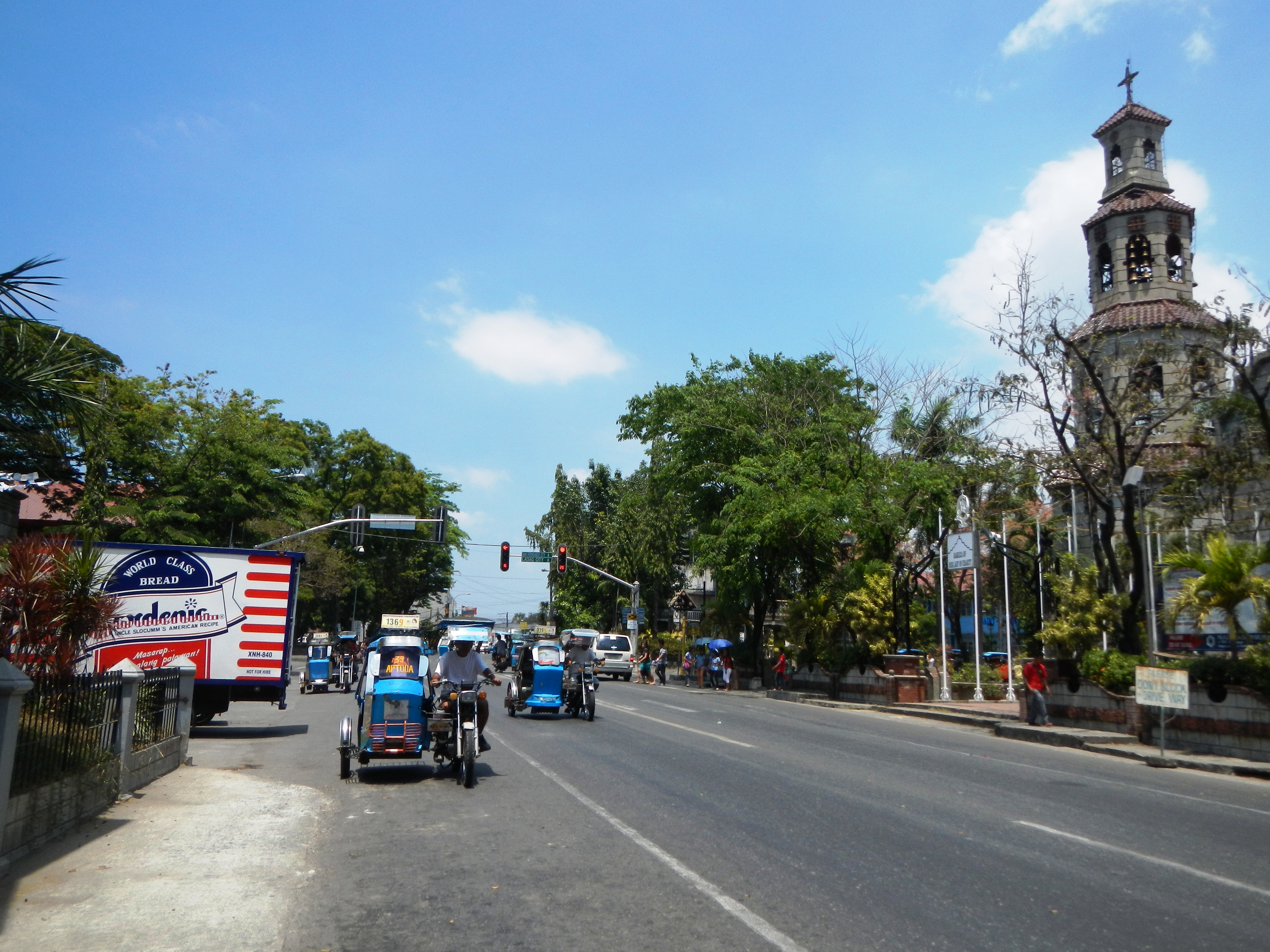 MacArthur Highway (R-9, formerly the Manila North Road, in Agoo, La Union, Agoo Magic Mall in Agoo Town Square beside the Agoo Tree House, Town Proper).